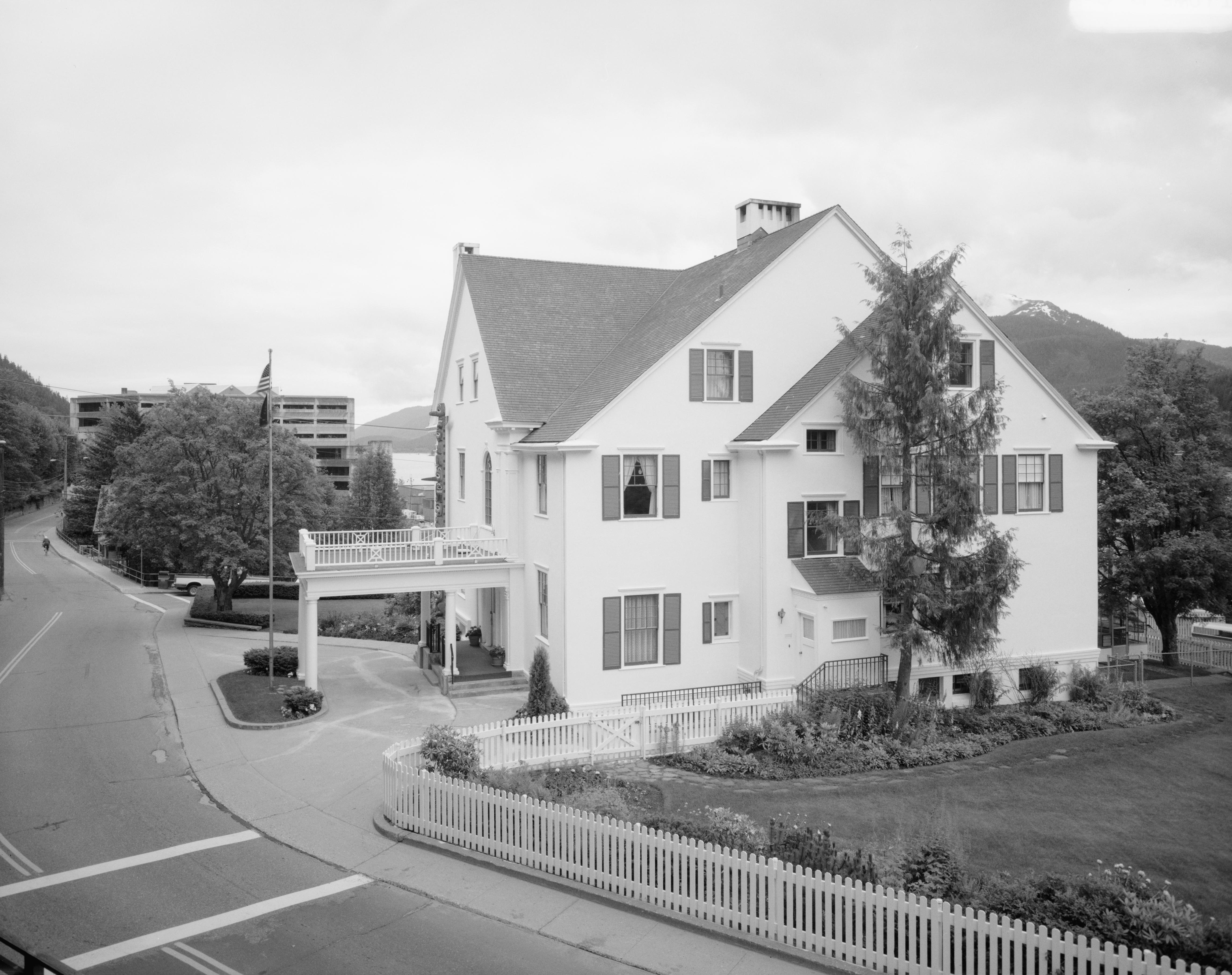 Northern corner of the Alaska Governor's Mansion, located at 716 Calhoun Avenue in Juneau, Alaska, United States. Built in 1912, it is listed on the National Register of Historic Places.